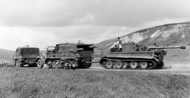 Schwere Panzer-Abteilung 503, July 1943, near Merefa, Ukraine.[1]